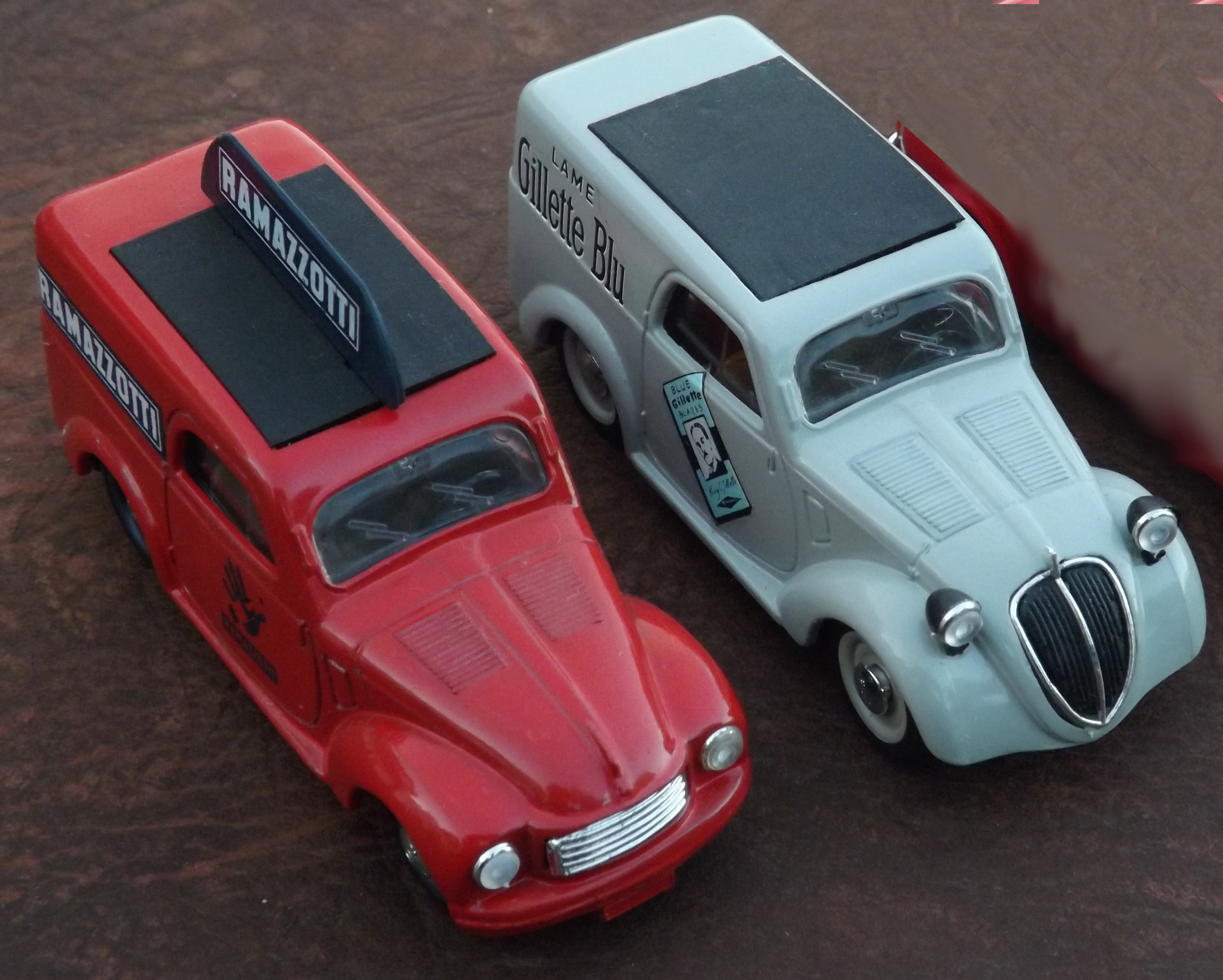 Fiat 500 B Topolino from 1946, 500 C from 1949. By Brumm. 1:43 scale. Made in italy